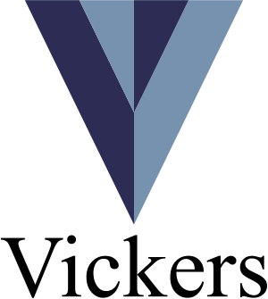 Company logo of defunct British engineering firm Vickers plc